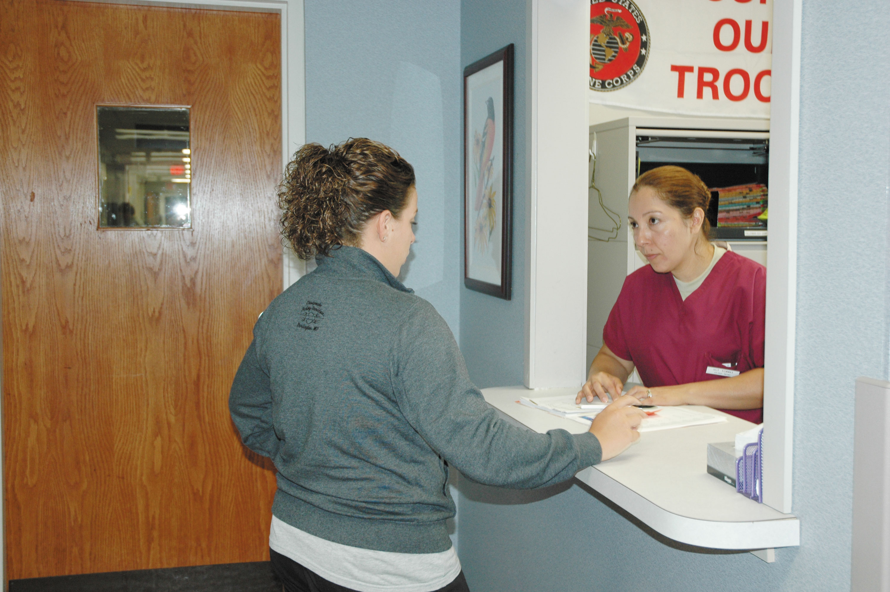 Randi Lynch, left, a receptionist at the Edgewood Area Dental Clinic, asks Sgt. Julissa Torres a question regarding paperwork.